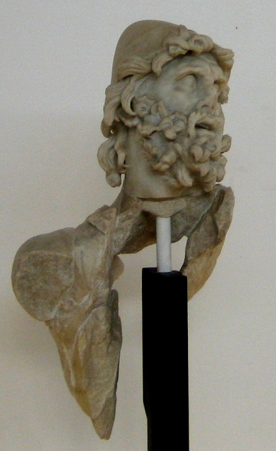 see above